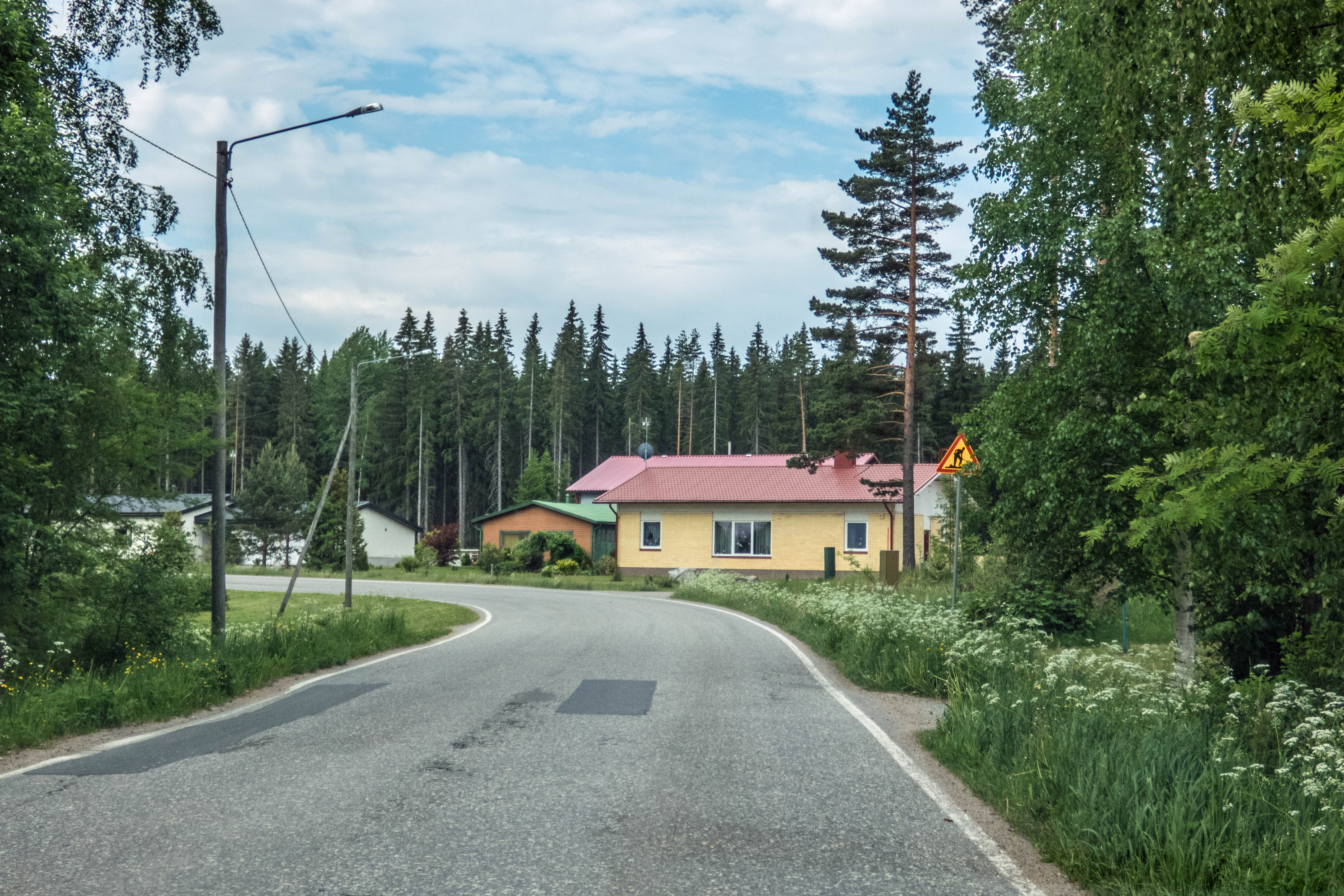 Road in Hatsola village, Juva.